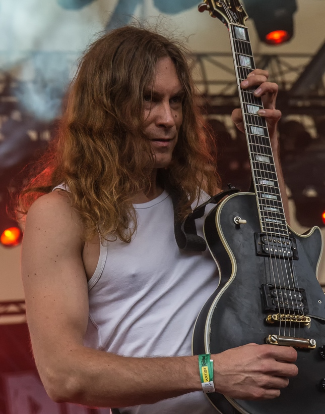 Ice Dale, guitarrist of Audrey Horne, at Rock Hard Festival.